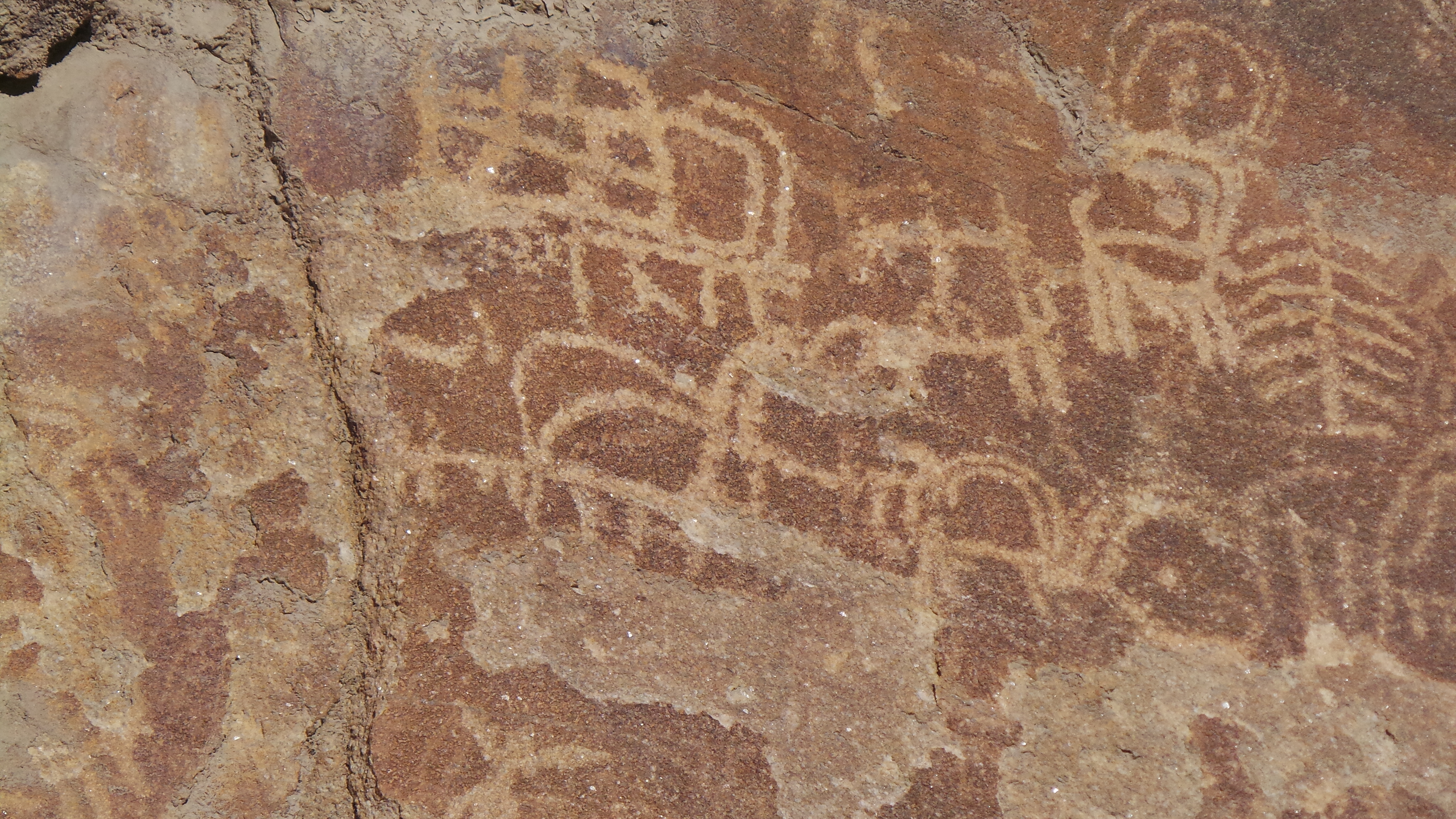 Sacred Rock of Hunza This is a photo of a monument in Pakistan identified as the GB-18